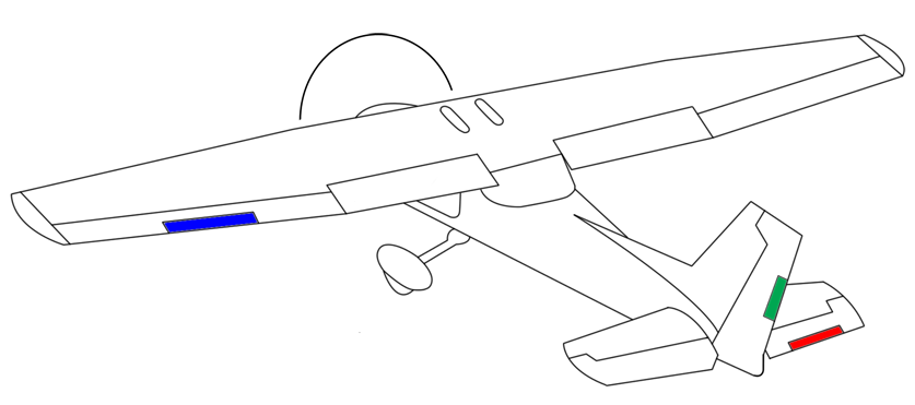 Aileron, rudder and elevator trim tabsTürkçe: Kanatçık, istikâmet dümeni ve irtifâ dümeni fletnerleri